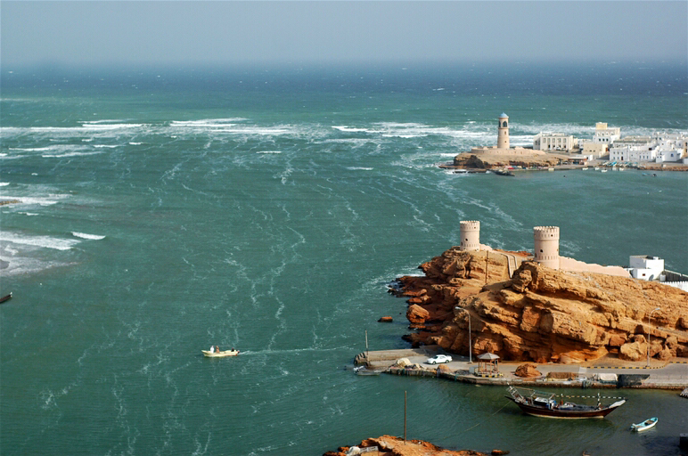 Vista of Sur, Oman. Reconstructed 16th century Portuguese forts dot the landscape.